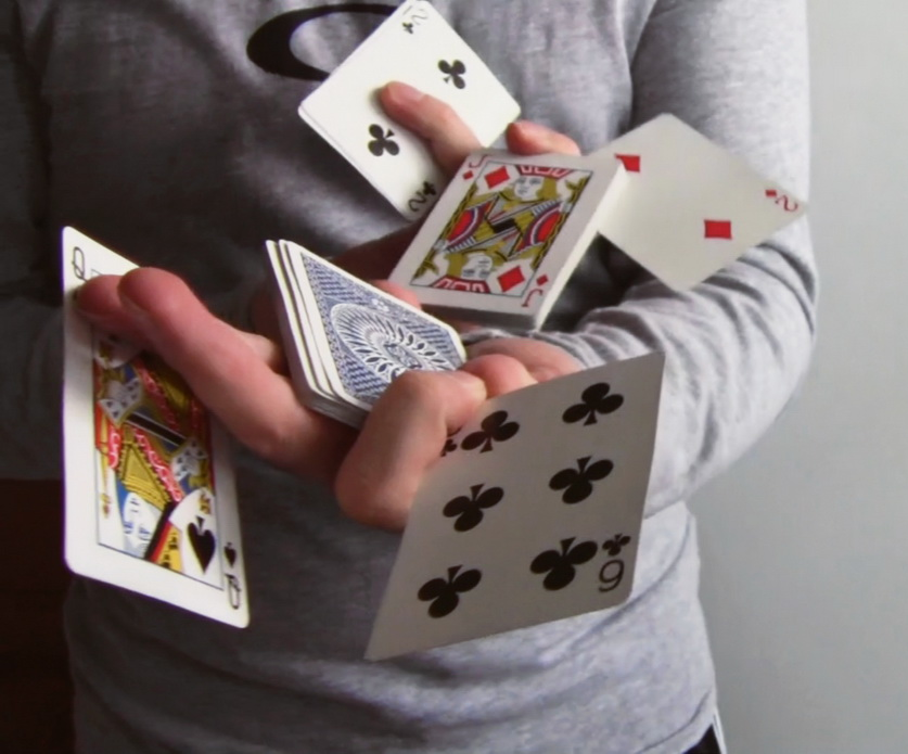 Shahan Bedrosian performing his card flourish Poleaxe